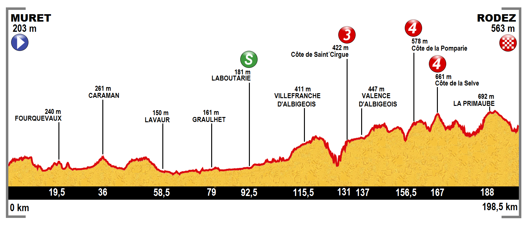 Profile of the 13th stage of the Tour de France 2015